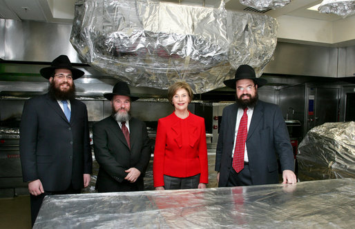 Mrs. Laura Bush poses Monday, Dec. 15, 2008, in the White House kitchen with the rabbis who supervised the kitchen's koshering for the annual Hanukkah party. From left are Rabbi Mendel Minkowitz, Rabbi Binyomin Steinmetz and Rabbi Levi Shemtov. White House photo by Joyce N. Boghosian